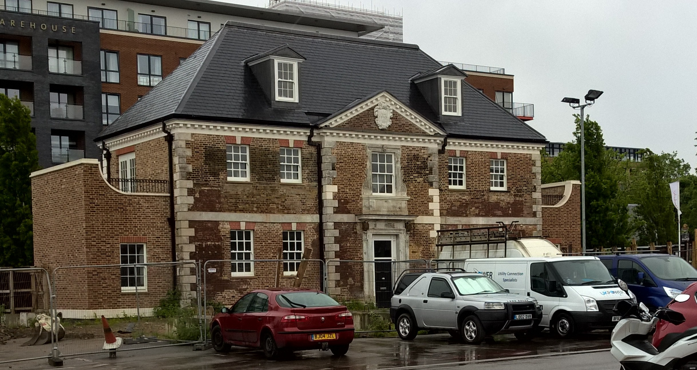 One of a pair of pavilions, originally part of a quadrangular compound, dating from 1695 and currently under restoration (Pavilion Square development).